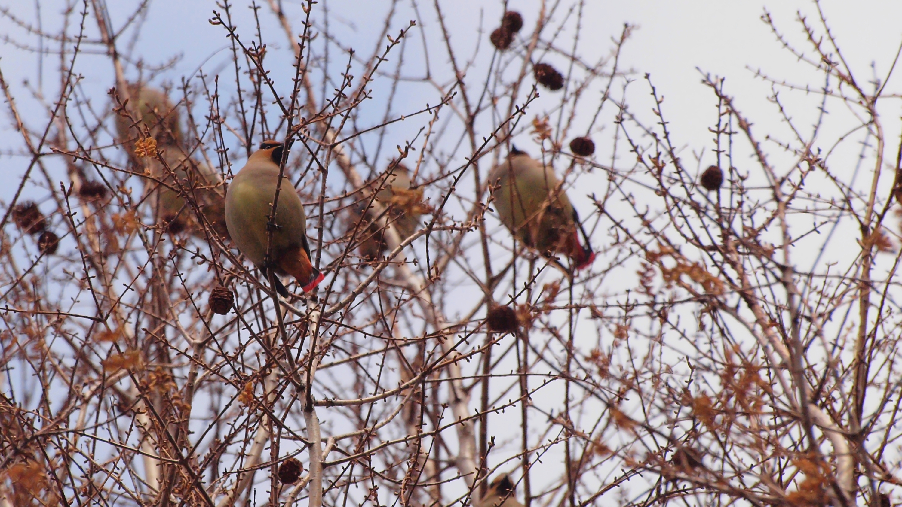 Japanese Waxwing Bombycilla japonica on Metasequoia tree